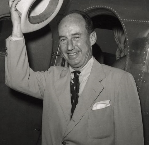 American presidential candidate Adlai Stevenson (1900-1965) at the Democratic National Convention, Chicago, Ill., July 1952